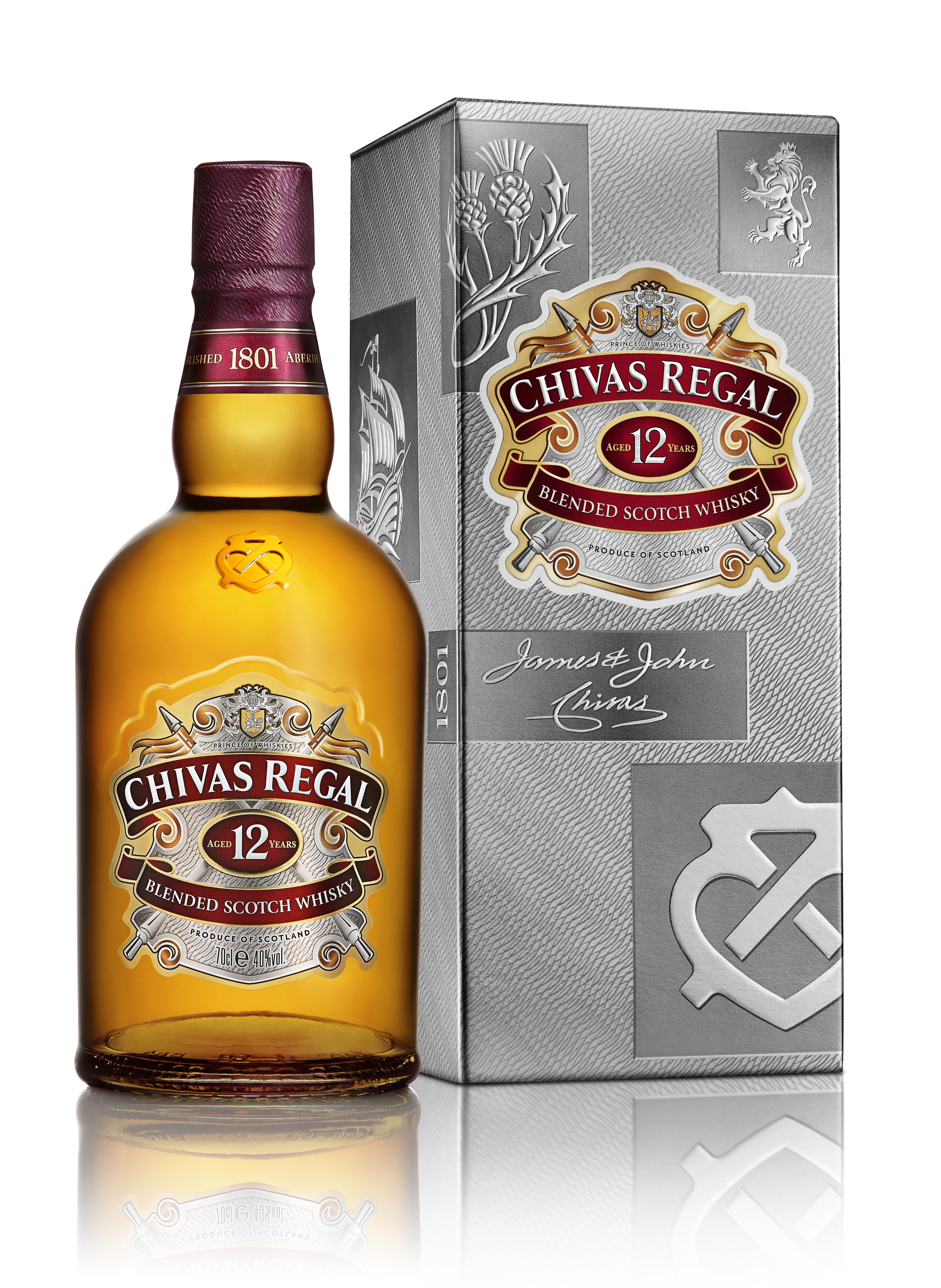 A bottle of Chivas Regal